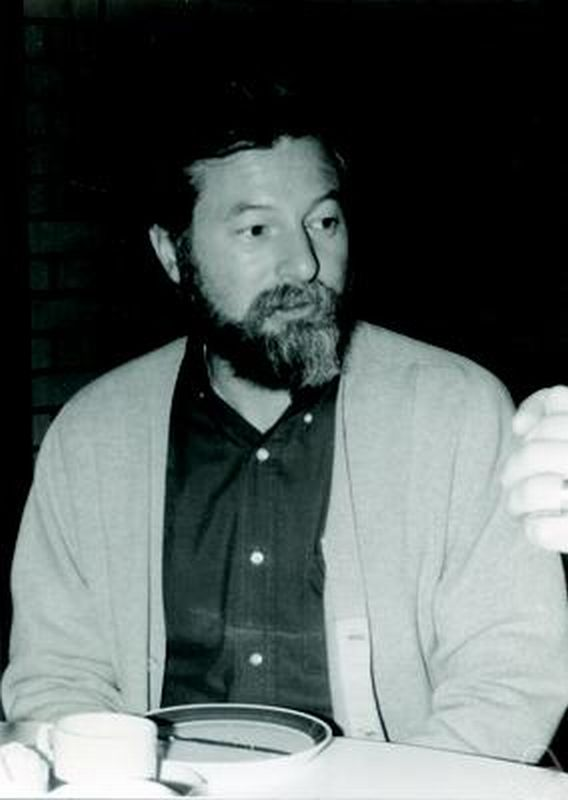 Peter Ney, Oberwolfach 1972